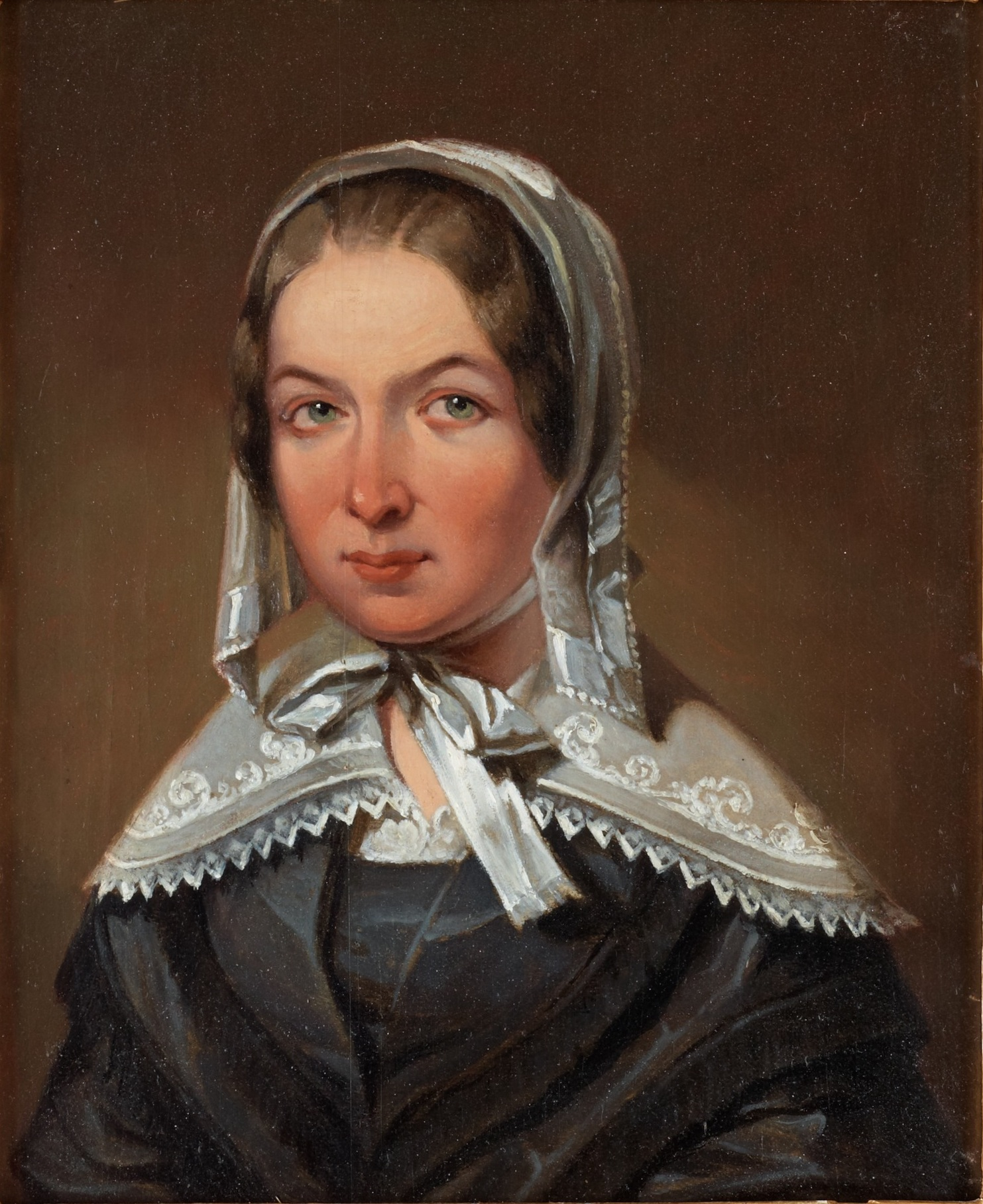 A replica or study. Same dimensions as the original in the collections of Gripsholm Castle.